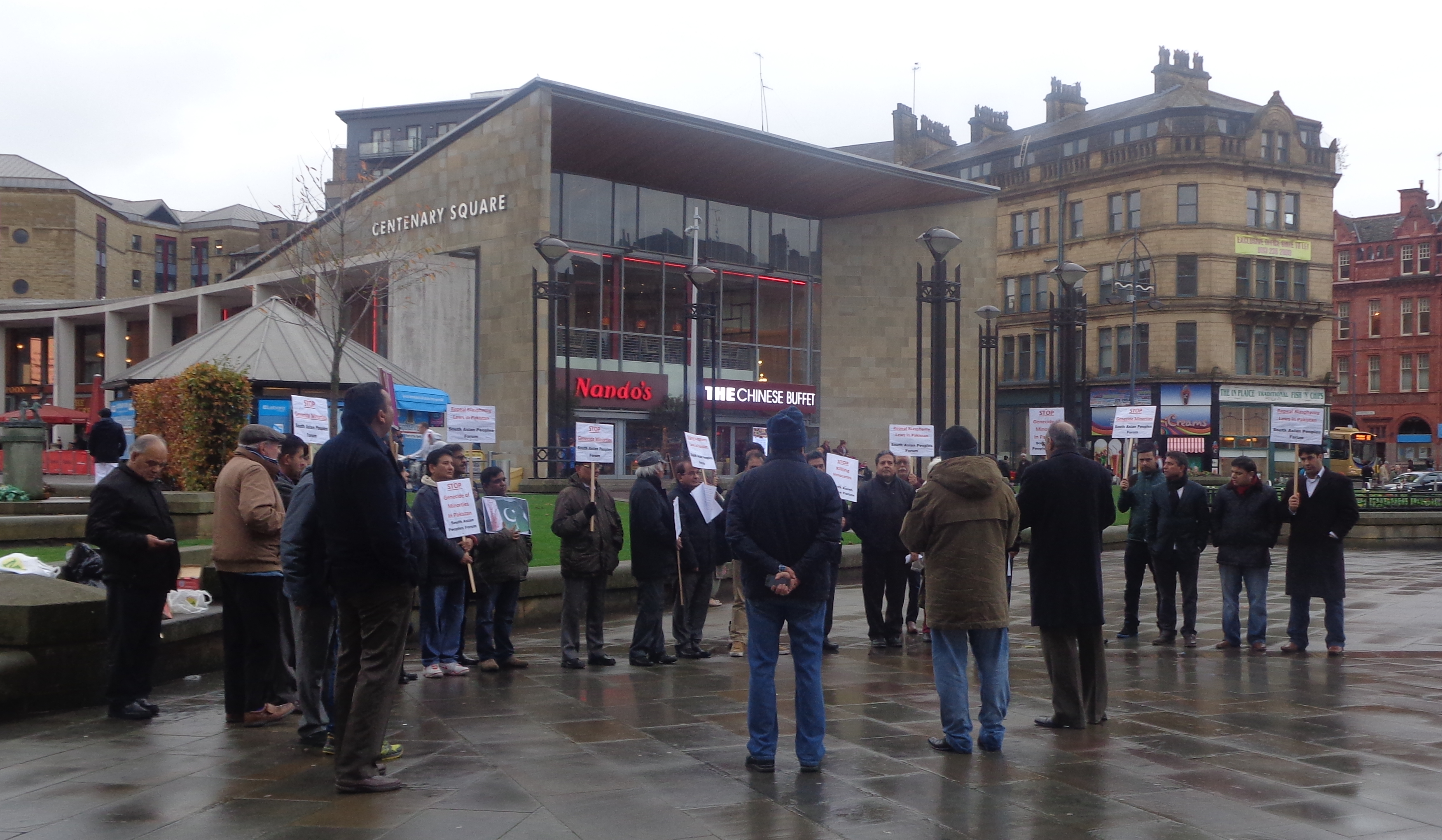 Anti-Pakistani blasphemy law protest, Centenary Square, Bradford, West Yorkshire. Taken on the afternoon of Saturday the 8th of November 2014.